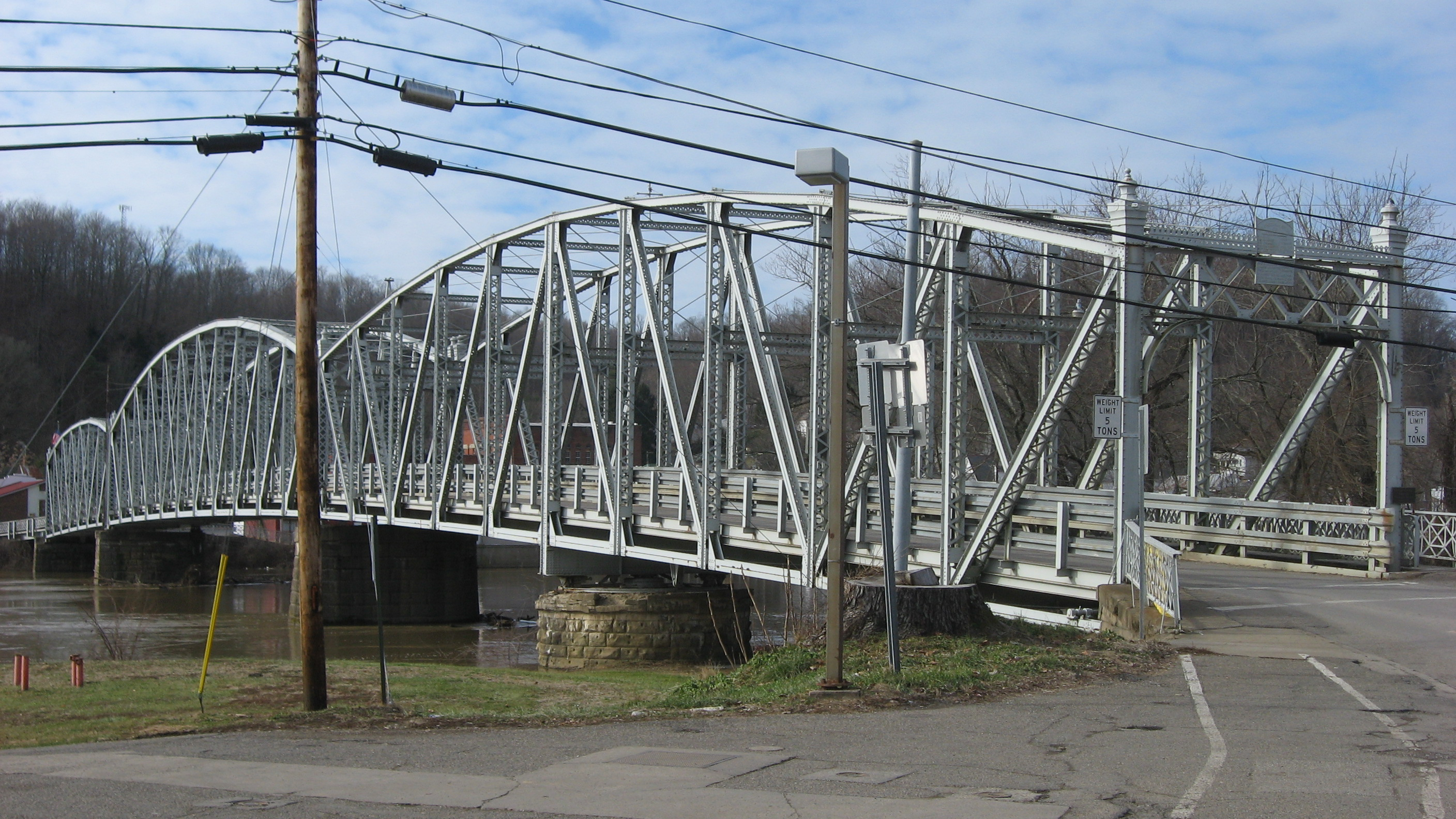 Eastern portal and southern (downstream) side of the Morgan County Veterans' Memorial Bridge, which spans the Muskingum River between Malta and McConnelsville, Ohio, United States. Built in 1913, it is part of the Muskingum River Navigation Historic District, a historic district that is listed on the National Register of Historic Places. Photo is taken from Main Street (State Routes 60 and 78) in McConnelsville.